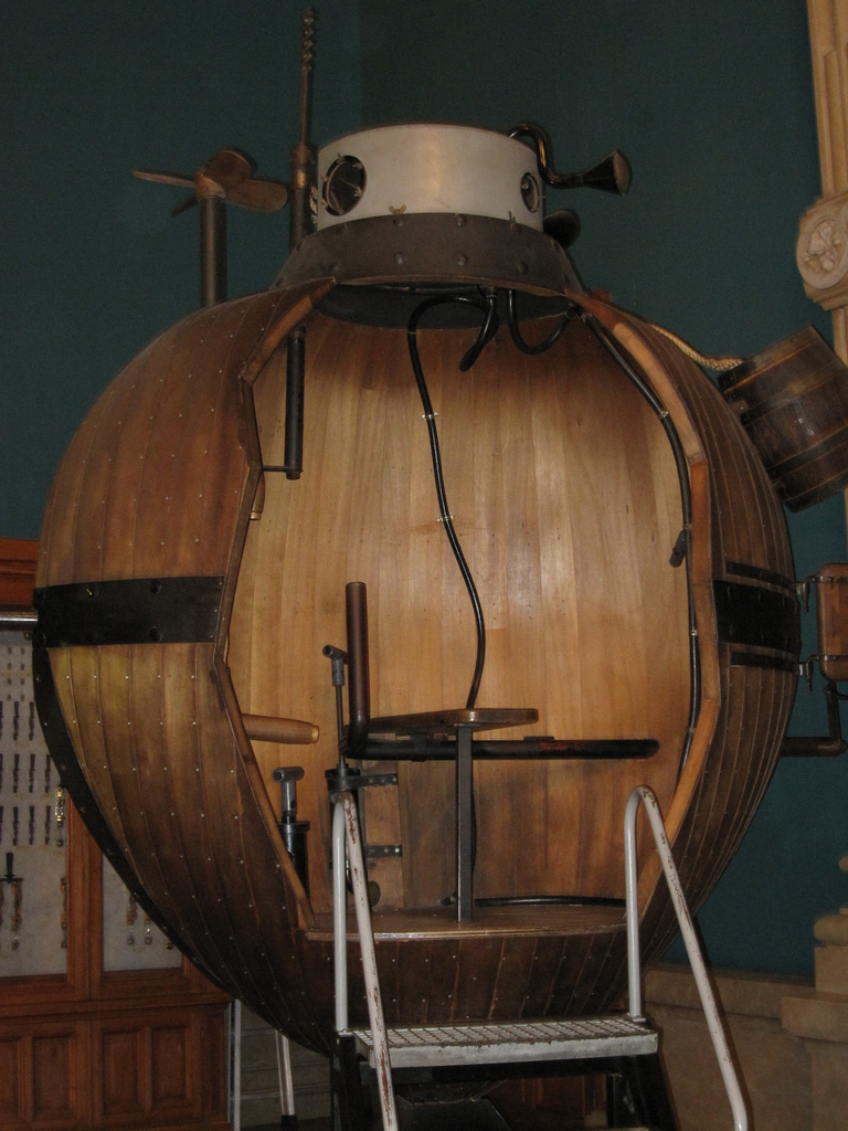 Bushnell's "Turtle", Oceanographic Museum, Monaco.